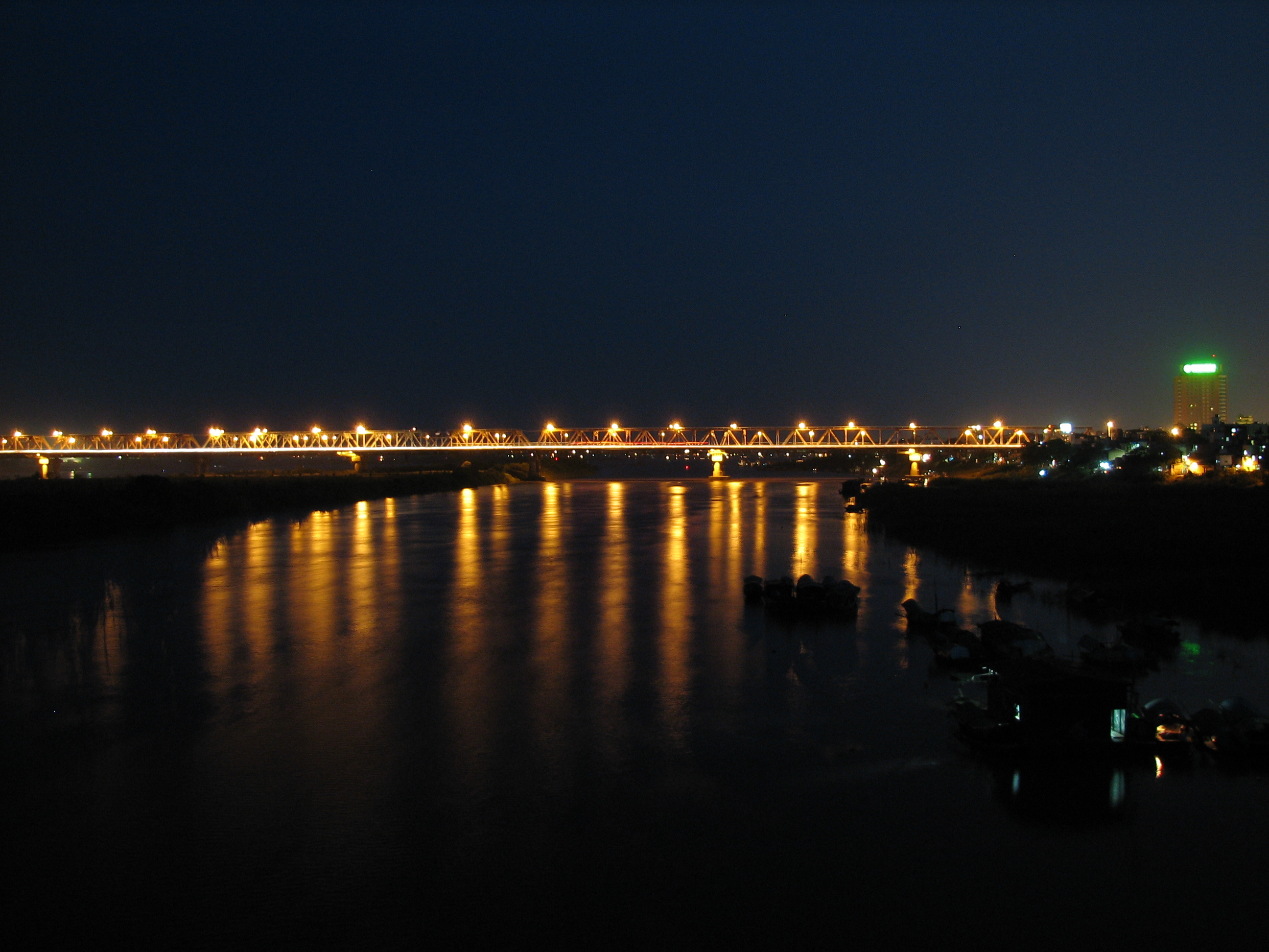 Night view of Chuong Duong bridge in Ha Noi, Vietnam